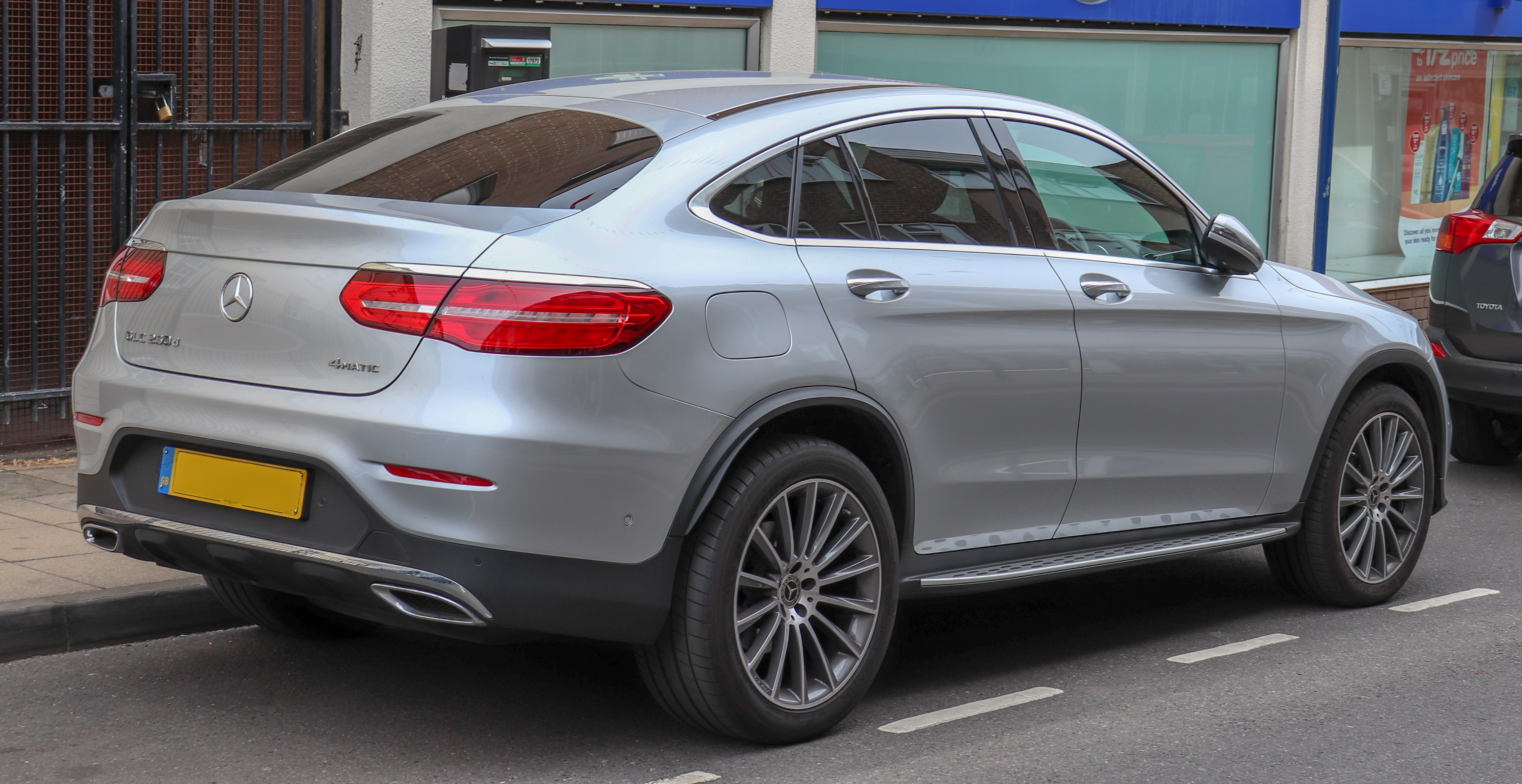 2018 Mercedes-Benz GLC 250d 4MATIC AMG Line Pre Plus 2.1 Rear Taken in Warwick